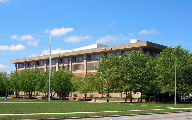 Cavanaugh Hall, one of the original campus buildings, by H. Brant (2005)